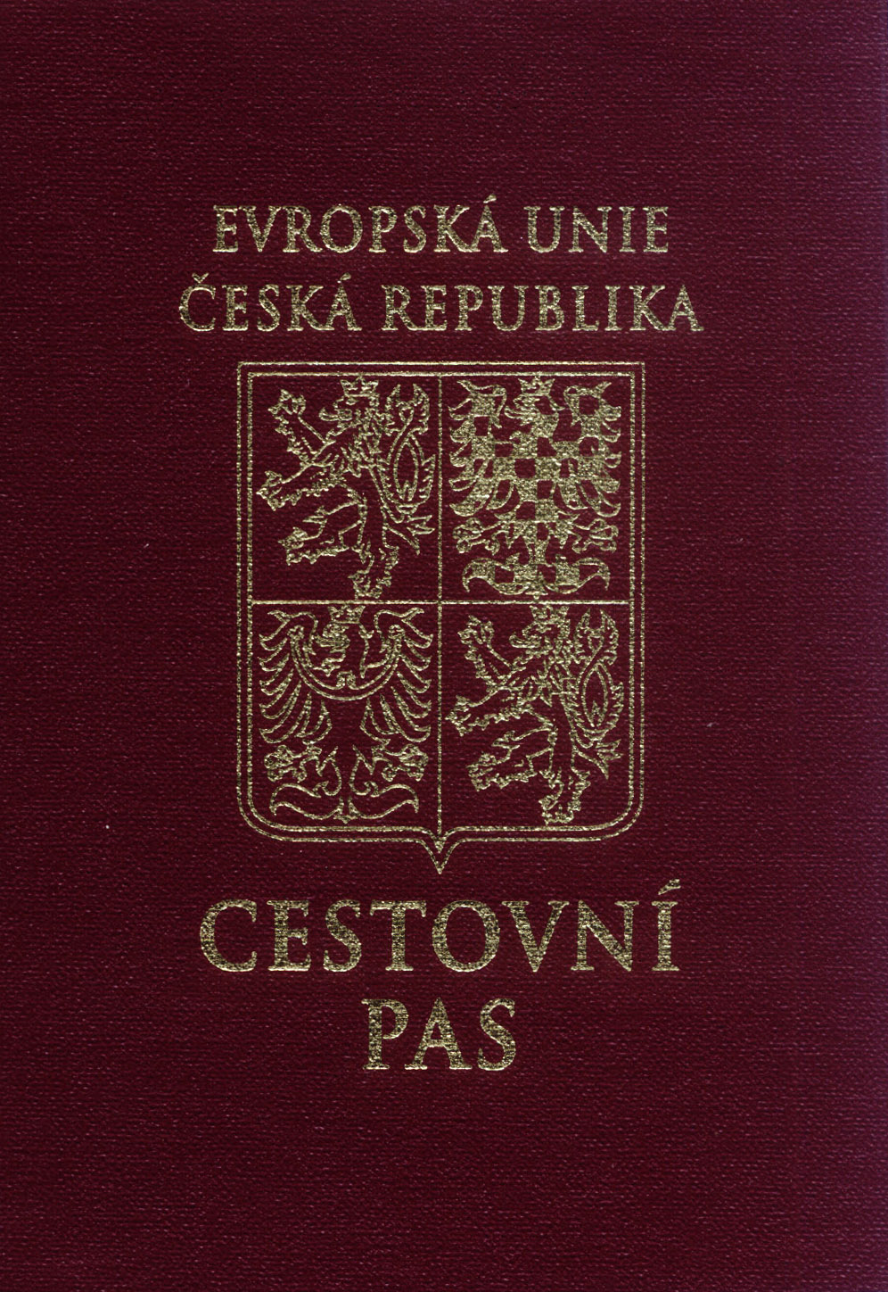 Passport of Czechia in 2006 after EU accession